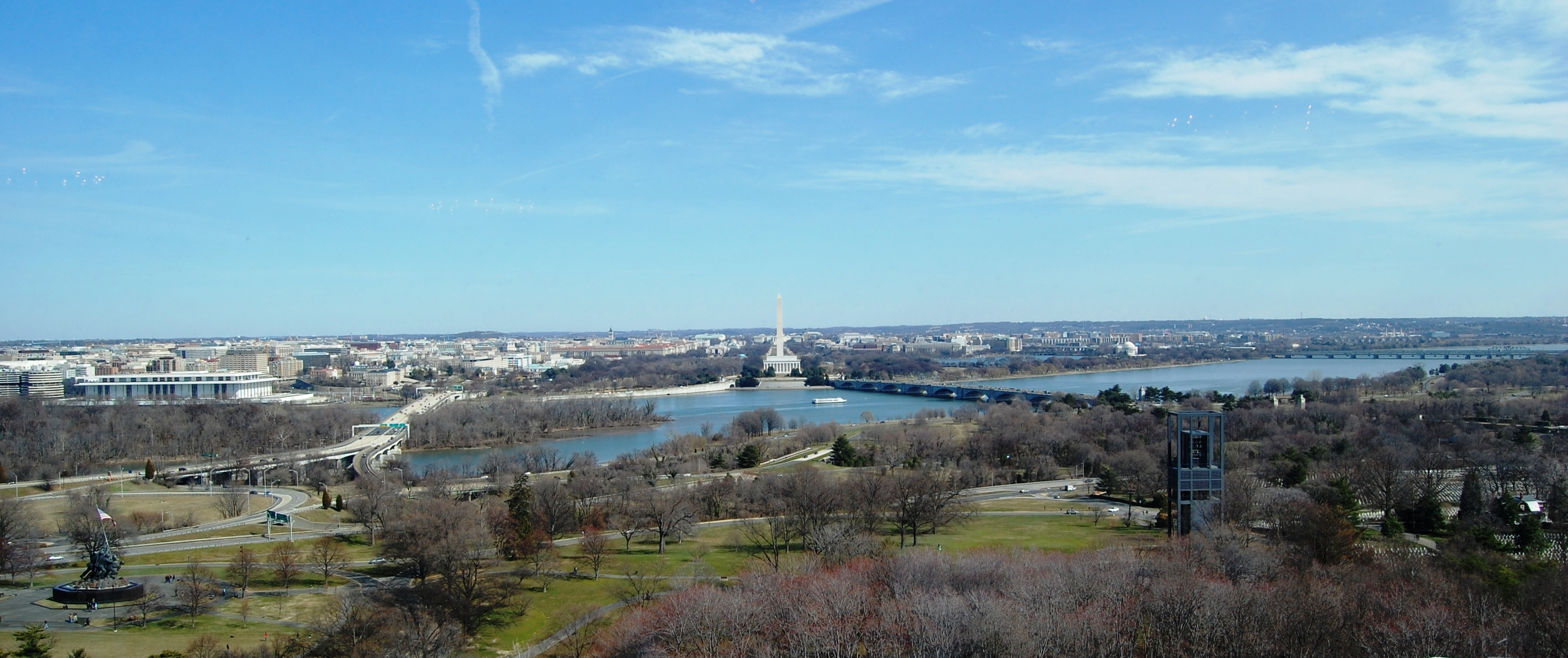 View on Washington DC from Arlington, Va, from so called "Top of the Town". Some of the visible landmarks: Iwo Jima Memorial aka Marines War Memorial (bottom left), Theodore Roosevelt Bridge (bridge on the left), Theodore Roosevelt Island, John F. Kennedy Center for the Performing Arts (across the river on the left from the bridge), Watergate complex (on the left from Kennedy Center), Washington Monument (center), Lincoln Memorial (directly in front of Washington Monument), Arlington Memorial Bridge (bridge on the right), Tidal Basin (above the bridge), Thomas Jefferson Memorial (to the right of the Basin), 14th Street Bridge (far right bridge), Netherlands Carillon (black tower up-close on the Virginia side), and Arlington Cemetery.